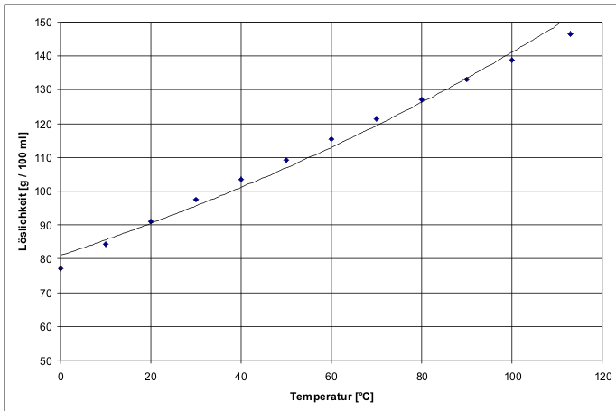 Solubility diagram of Rubidium chloride. Numeric data from: R. Abegg, F. Auerbach, I. Koppel: "Handbuch der anorganischen Chemie", Verlag S. Hirzel, 1908, 2. Band, 1. Teil, S. 427ff. [1]